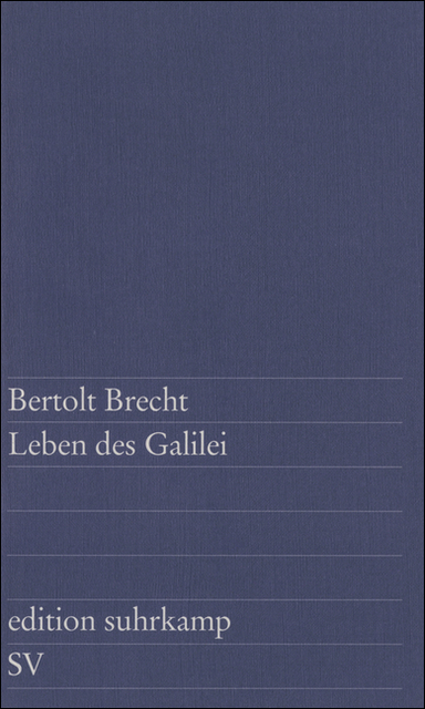 Title of Bertolt Brecht's Life of Galileo in the edition suhrkamp.